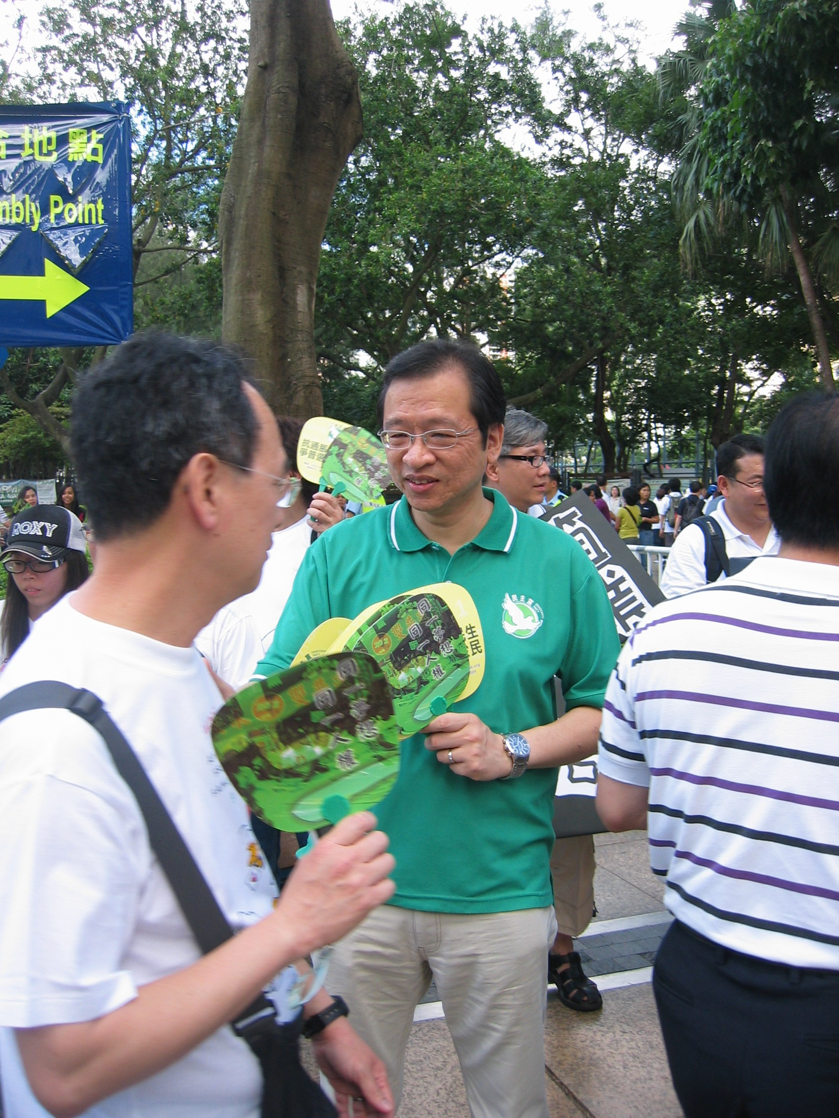 KAM Nai Wai in the Hong Kong 2008 July 1 marches 中文（香港）: 甘乃威出席2008年七一大遊行的相片